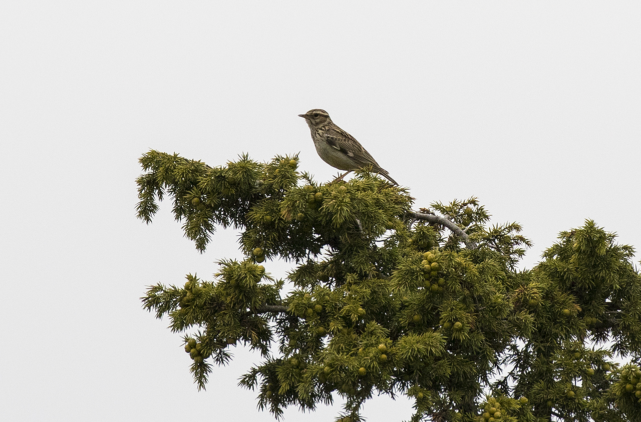 Woodlark ( Lullula arborea). Dutlupınar, Saimbeyli - Adana, Turkey.